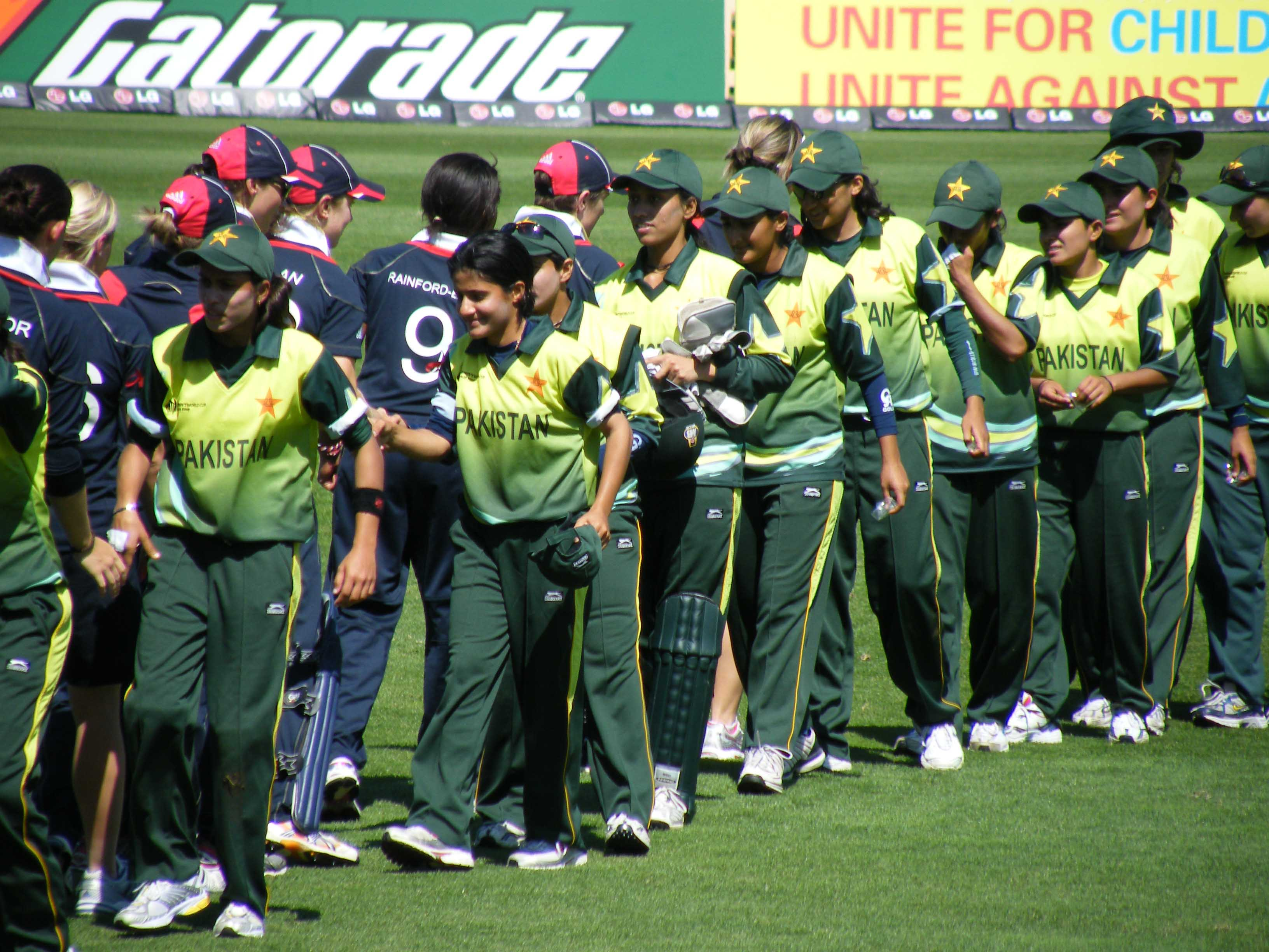 England and Pakistan Teams - ICC Women's Cricket World Cup, Sydney, March 2009.